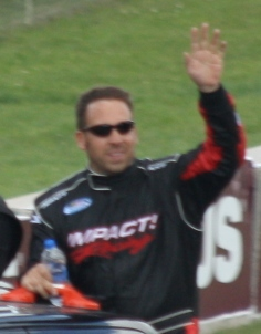 NASCAR driver Andy Ponstein during driver introductions at the 2010 Bucyros 200 the first Nationwide Series race at Road America.